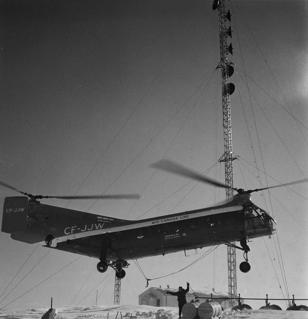 A Piasecki H-21 helicopter registered CF-JJW hovers in front of a Mid-Canada Line radar tower. The helicopter was operated by Okinagan Helicopters (seen in the fine print) and appears to be at Site 410 in Quebec. Collections Canada MIKAN 4949775